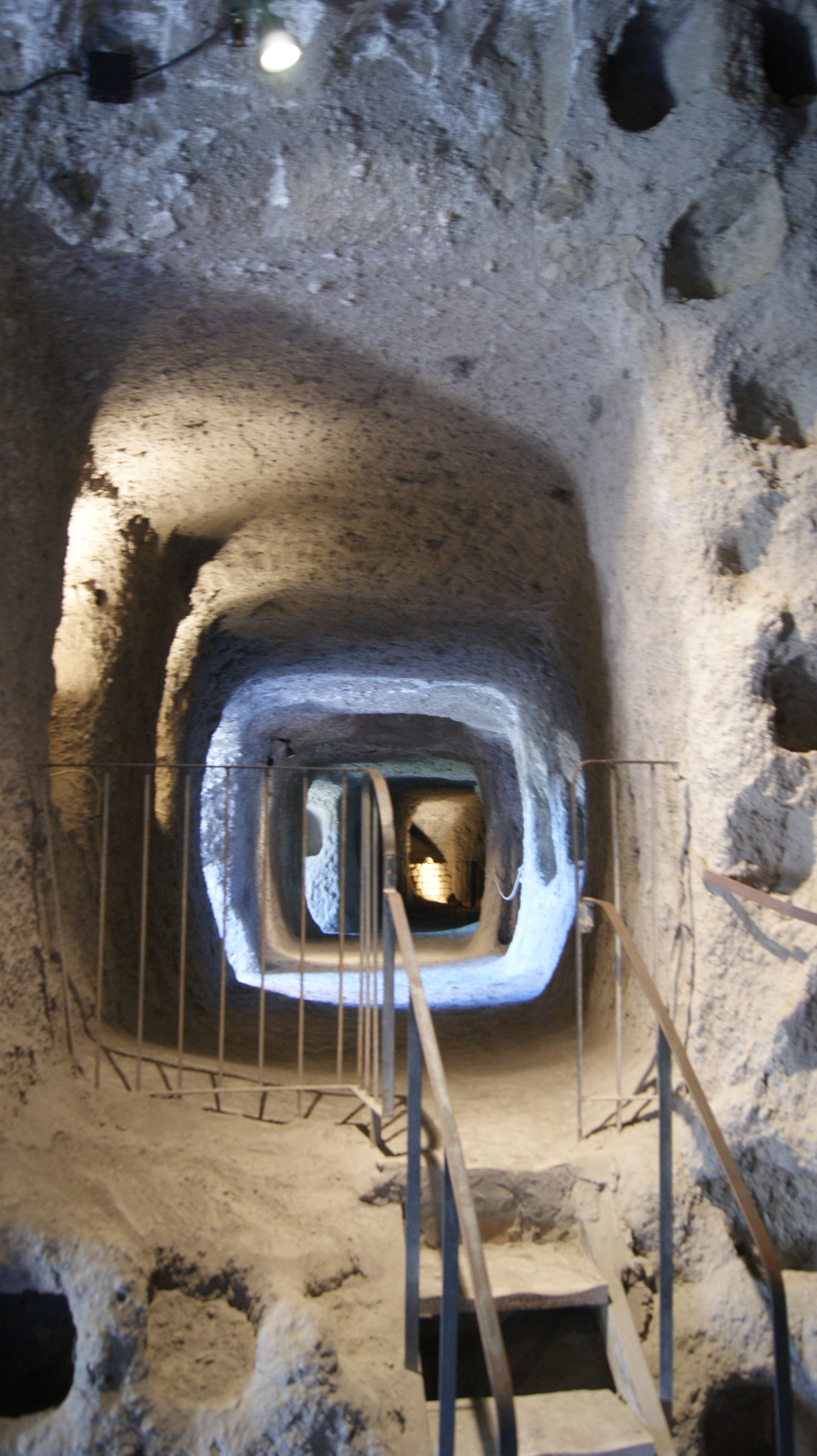 "Underground City" in Orvieto, Italy.